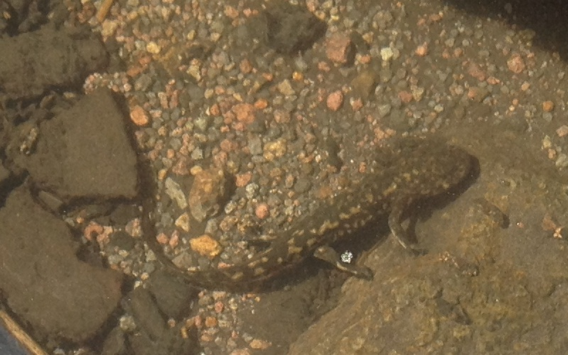 Abystoma leorae is a critically endangered salamander from the Sierra Nevada in Mexico. This photo was taken on shallow, icy waters near a small waterfall by the trail to the summit of Mount Tláloc, in Ixtapaluca, State of Mexico.